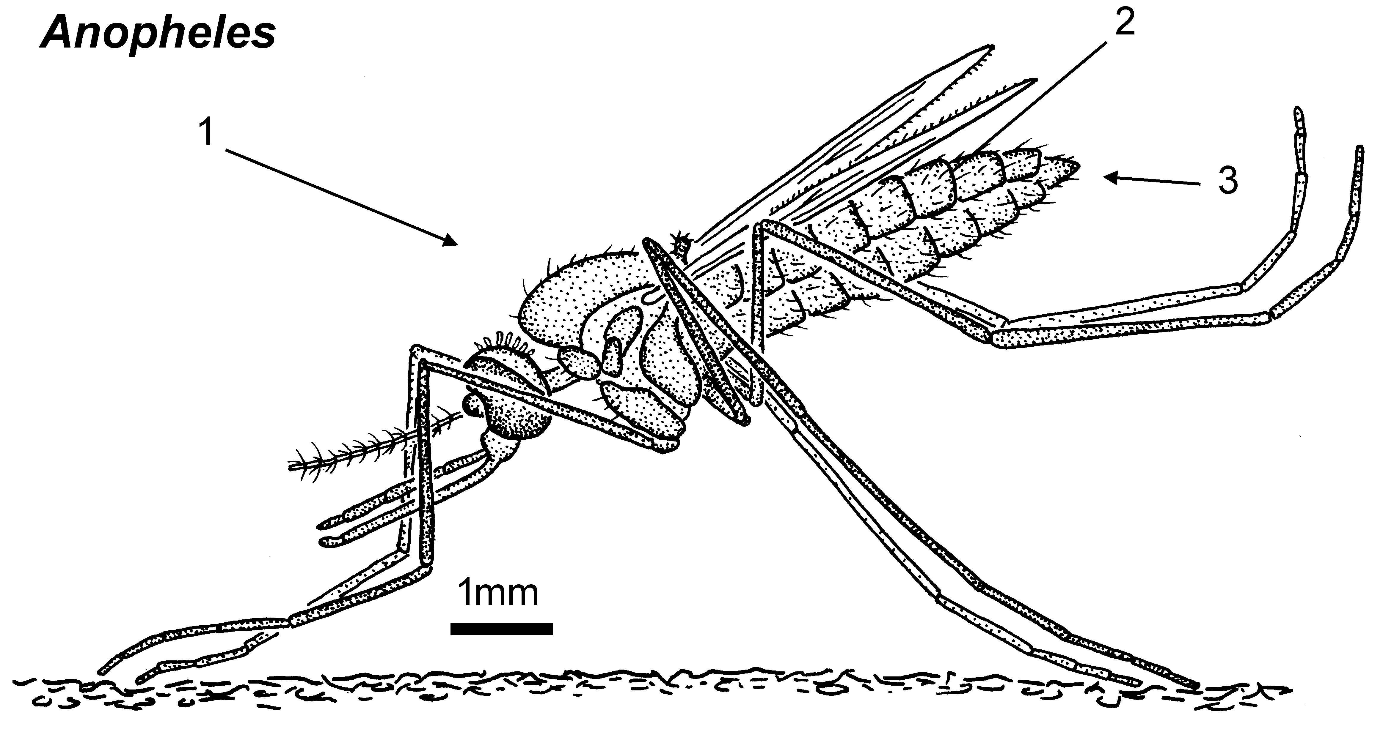 Anopheles female, lateral. Genus characteristics: 1- Female in resting stance that is typical of Anopheles, whole body forms a straight line with abdomen held higher than head. 2- Scales on the abdomen are absent. 3- Abdomen is blunt or sharp ended, depending on the species.